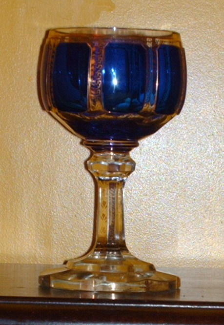 Chalice, Goblet, Cálice, Calyx. Feito de Vidro (Glass)